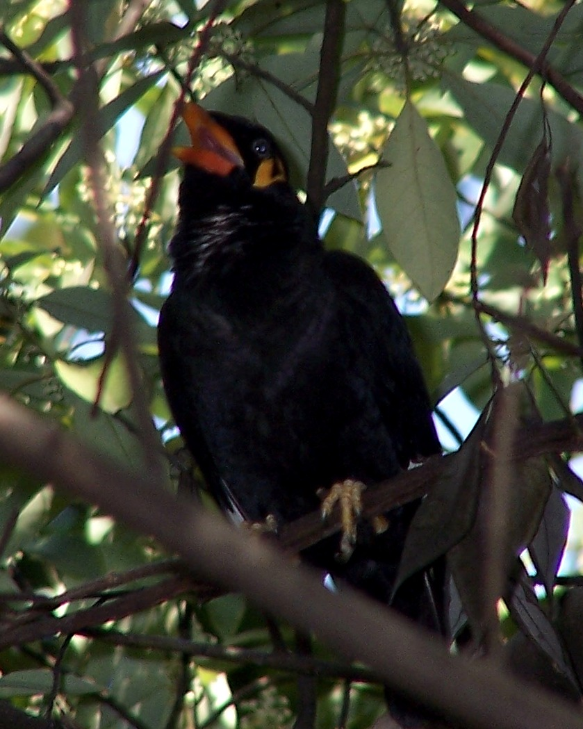 Common Hill Myna Gracula religiosa near the tower of Hong Kong Park, Hong Kong, China.